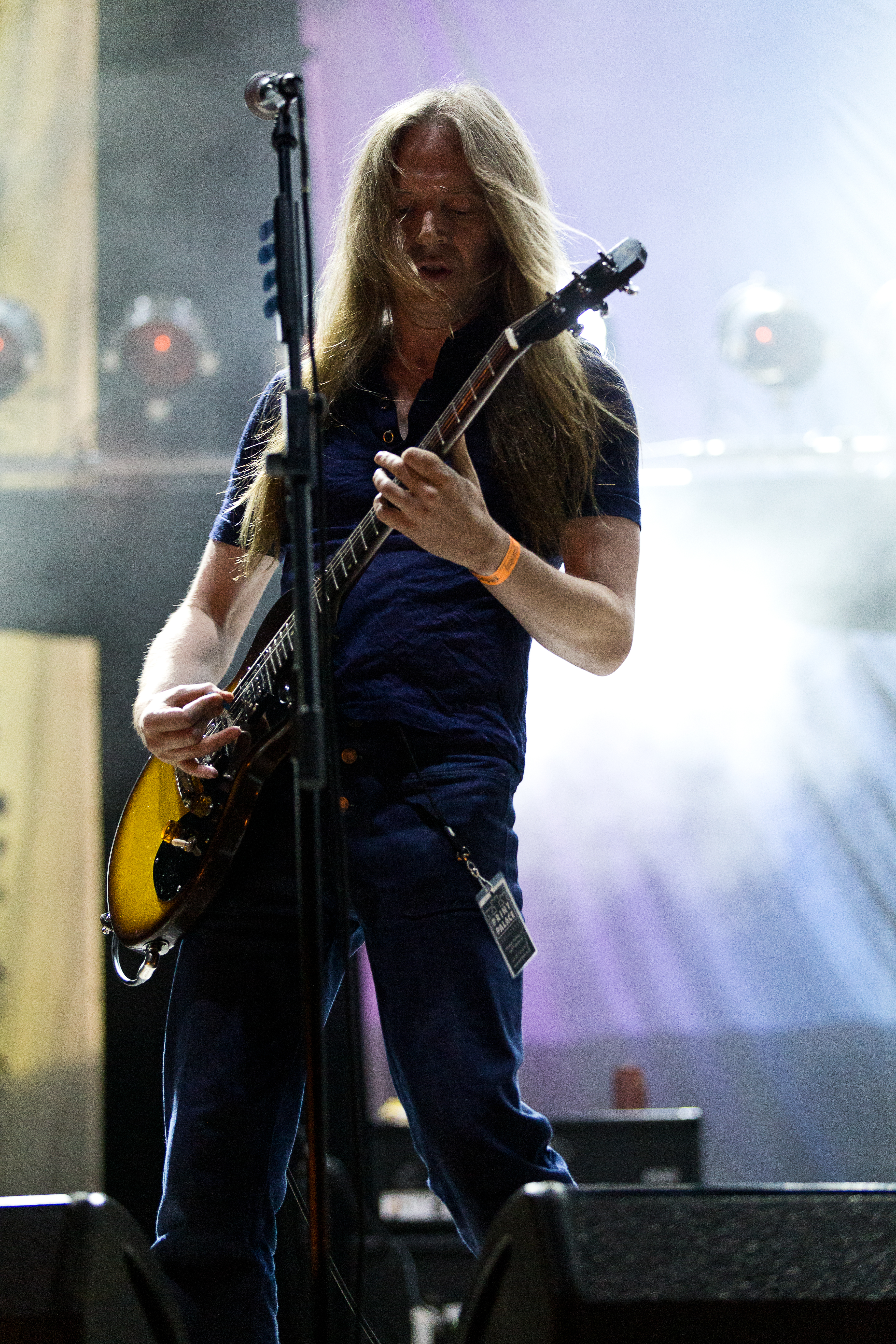 The English melodic death metal band Carcass at the Party.San Metal Open Air 2016 in Obermehler-Schlotheim/Germany.